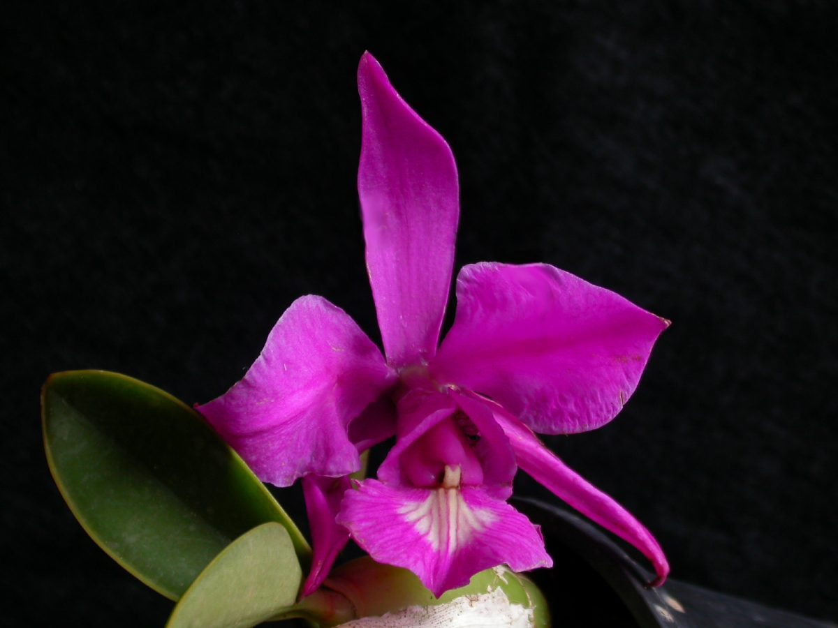 Cattleya × mesquitae